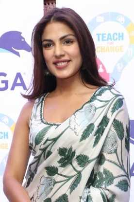 Rhea Chakraborty at Pega Teach For Change event